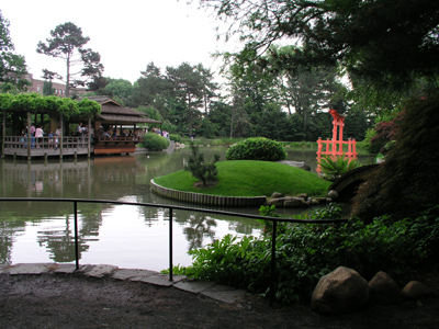 Japanese Hill-and-Pond Garden, Brooklyn Botanic Garden, New York City, June 2003 400x300 pixels, Â© 2003, by Wikipedia user:alex756, all rights reserved; the license granted herein is to Wikimedia Foundation, Inc. for non-exclusive distribution under the GNU FDL. Please contact user:alex756 for permission to use in any other non-GFDL or -CC context. Alex756 04:54, 21 Aug 2003 (UTC)